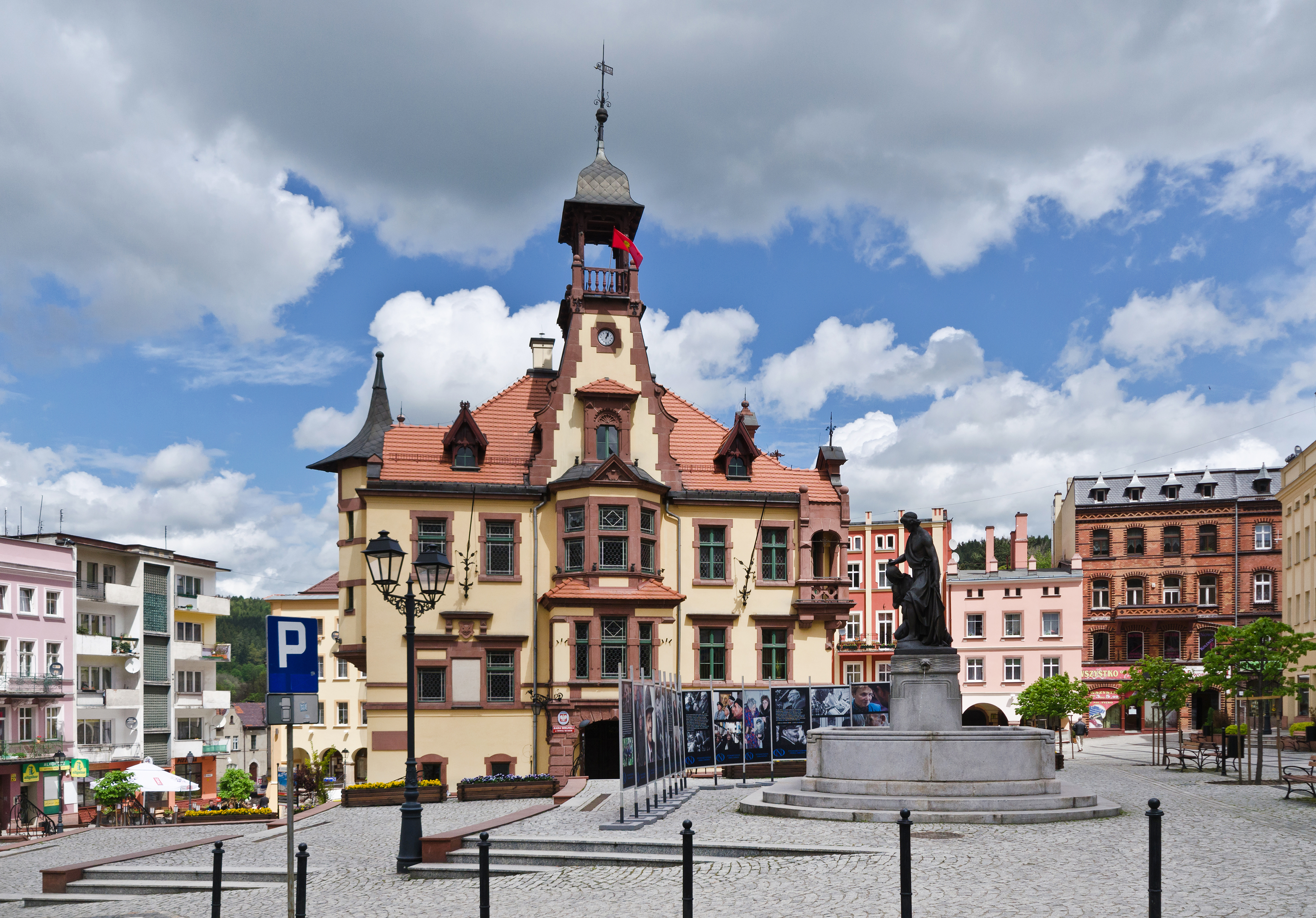 Town hall in Nowa Ruda